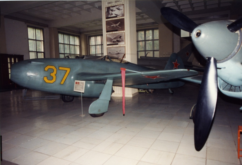 PictionID:42251829 - Title:Yakovlev Kak-15 Yakovlev Yak-15 Yakovlev Museum Moscow Sep93 3 - Catalog:15_003211 - Filename:15_003211.tif - ---- Image from the Charles Daniels Photo Collection album "Moscow Air Museums" which contains images Mr. Daniels took while visiting Russia----PLEASE TAG this image with any information you know about it, so that we can permanently store this data with the original image file in our Digital Asset Management System.----SOURCE INSTITUTION: San Diego Air and Space Museum Archive